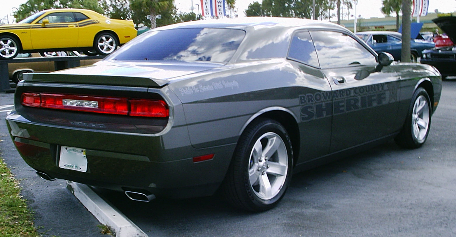 Broward County (Florida) Sheriff's 2010 Challenger R/T pursuit vehicle - rear right side.